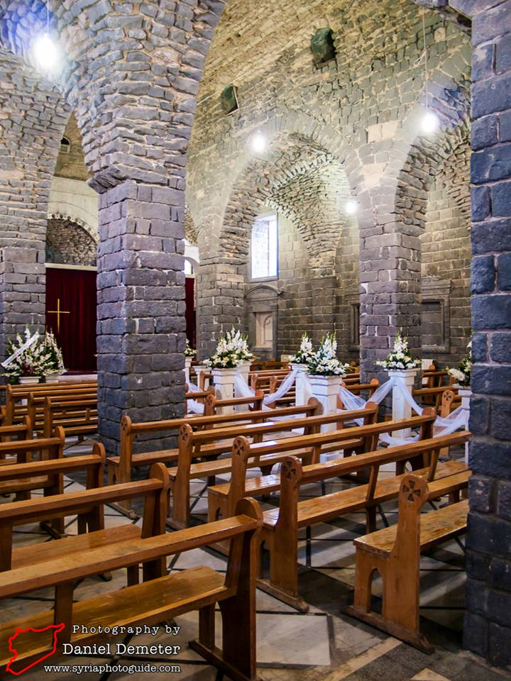 Um Azzenar Church (The Church of the Holy Girdle of Virgin Mary)